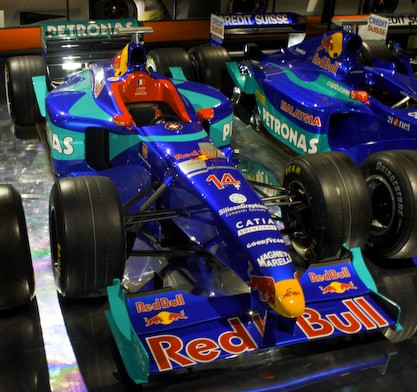 Jean Alesi's Sauber C17 in exposition